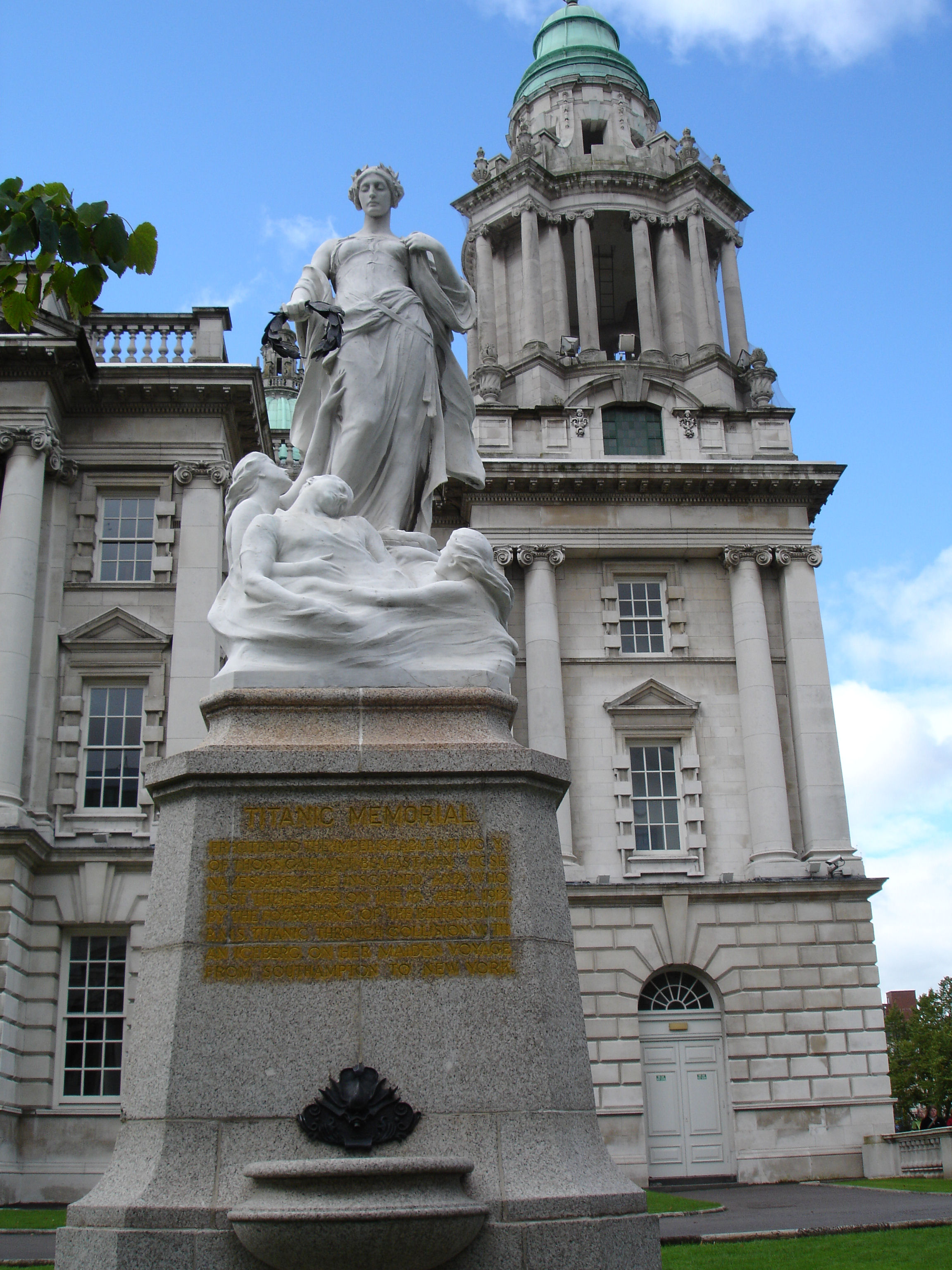 A memorial to the Titanic - built in a Belfast shipyard - stands in front of City Hall.